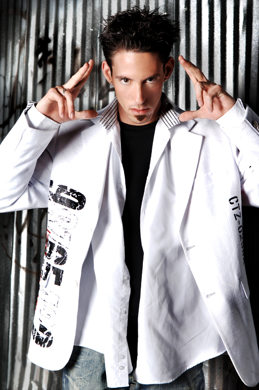 This is a promotional photo of Wayne Hoffman taken in 2007 by photographer Michael Vincent.